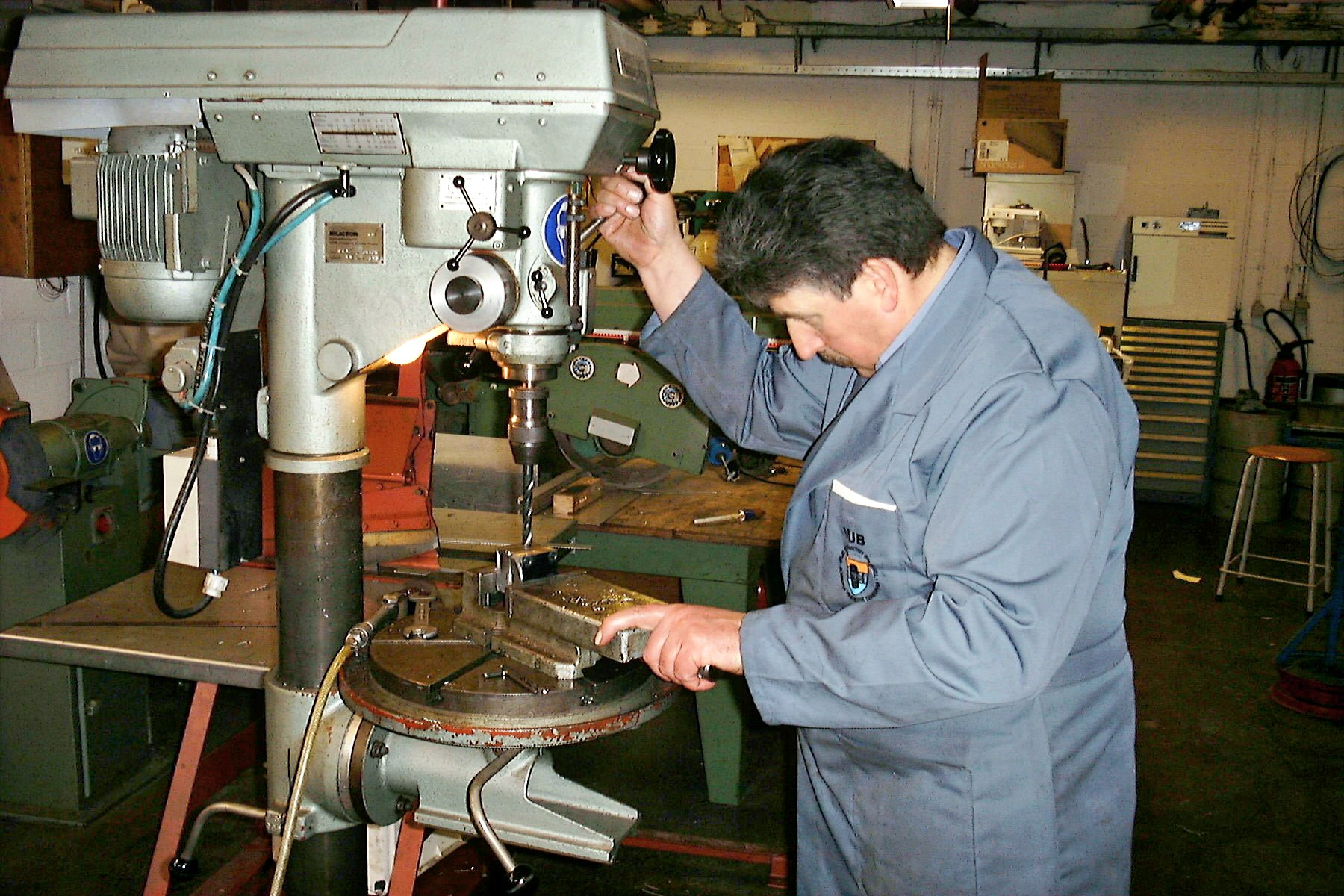 A technician operating a drill press